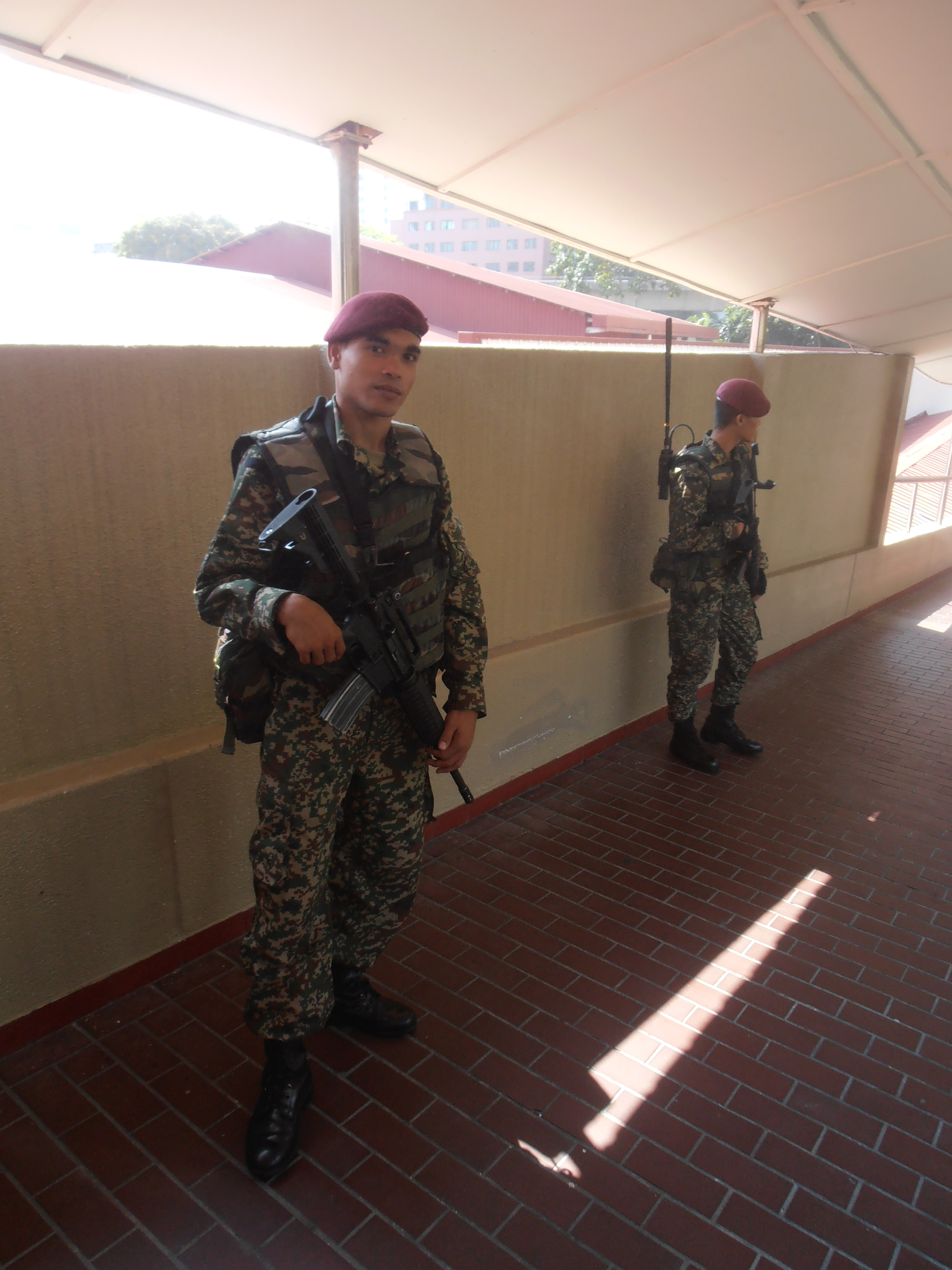 Soldiers from the 10 Paratrooper Brigade, Malaysian Army, on guard at Putra World Trading Center during an exhibition of the Defence Services Asia 2014. They belongs to the earlier batches of high-visible guards by the 10 Para, and dons the maroon beret together with the new pixellated digital camouflage combat uniform known as ATM Celoreng Corak Digital woodland pattern.